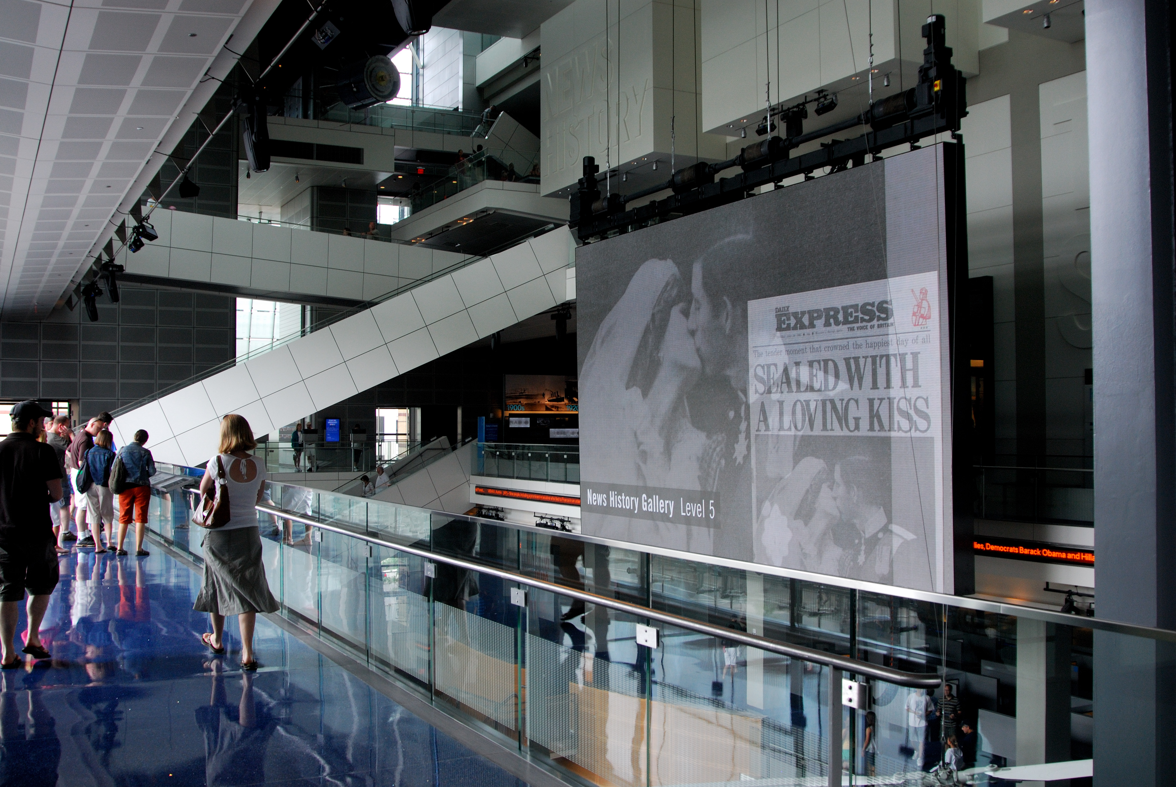 The giant Electronic Window to the World at the Newseum in Washington, D.C.